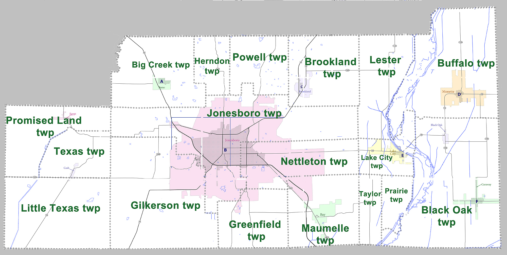 Large map showing townships in Craighead County, Arkansas. Modified from US census map (for 2010 census) for Craighead County, Arkansas